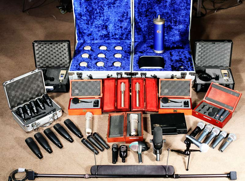 Microphones used in recording studios